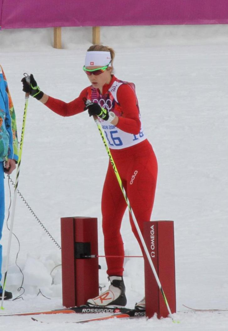 Women's sprint, 2014 Winter Olympics, Laurien van der Graaf cross country skiing